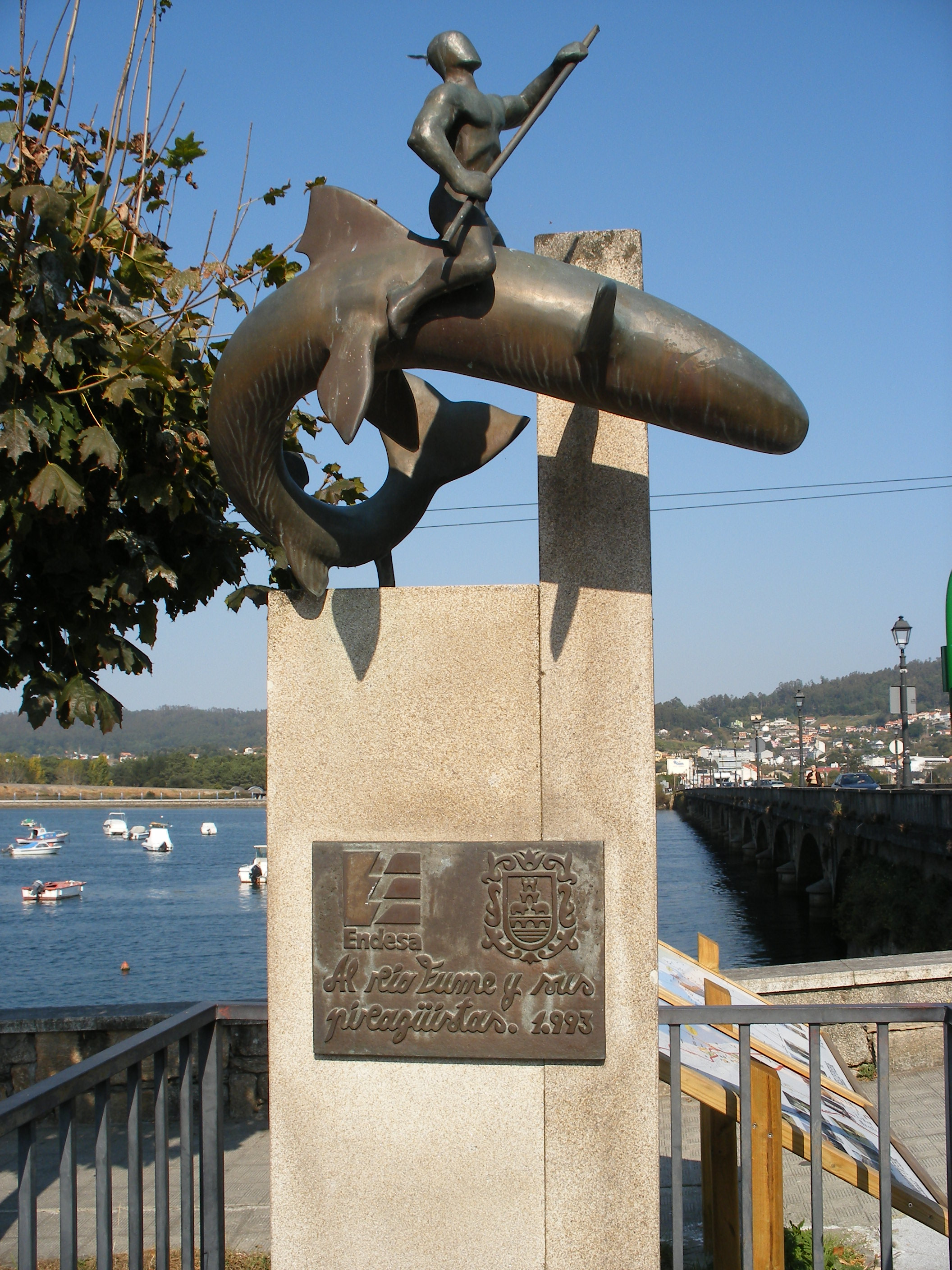 Monument to canoeists in Pontedeume, A Coruña, SpainGalego: Monumento aos piragüistas en Pontedeume